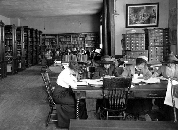 A 1904 photograph of the first Montana State University library.